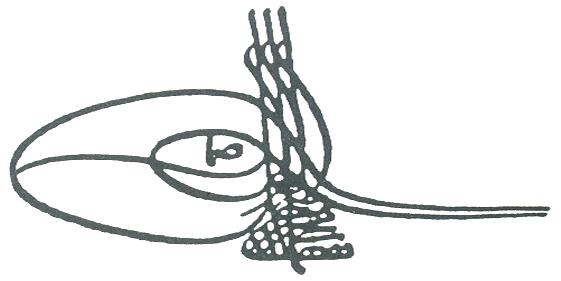 Tughra (i.e., seal or signature) of Mustafa II, Sultan of the Ottoman Empire (1695-1703). An explanation of the different elements composing the tughra can be found here.